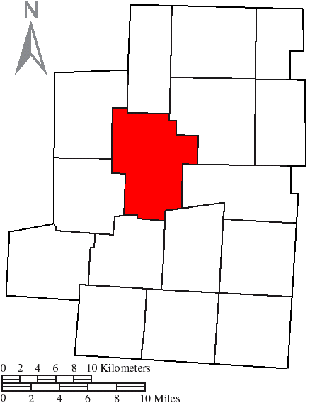 Originally created by the US Census. Modified by myself to highlight the township.